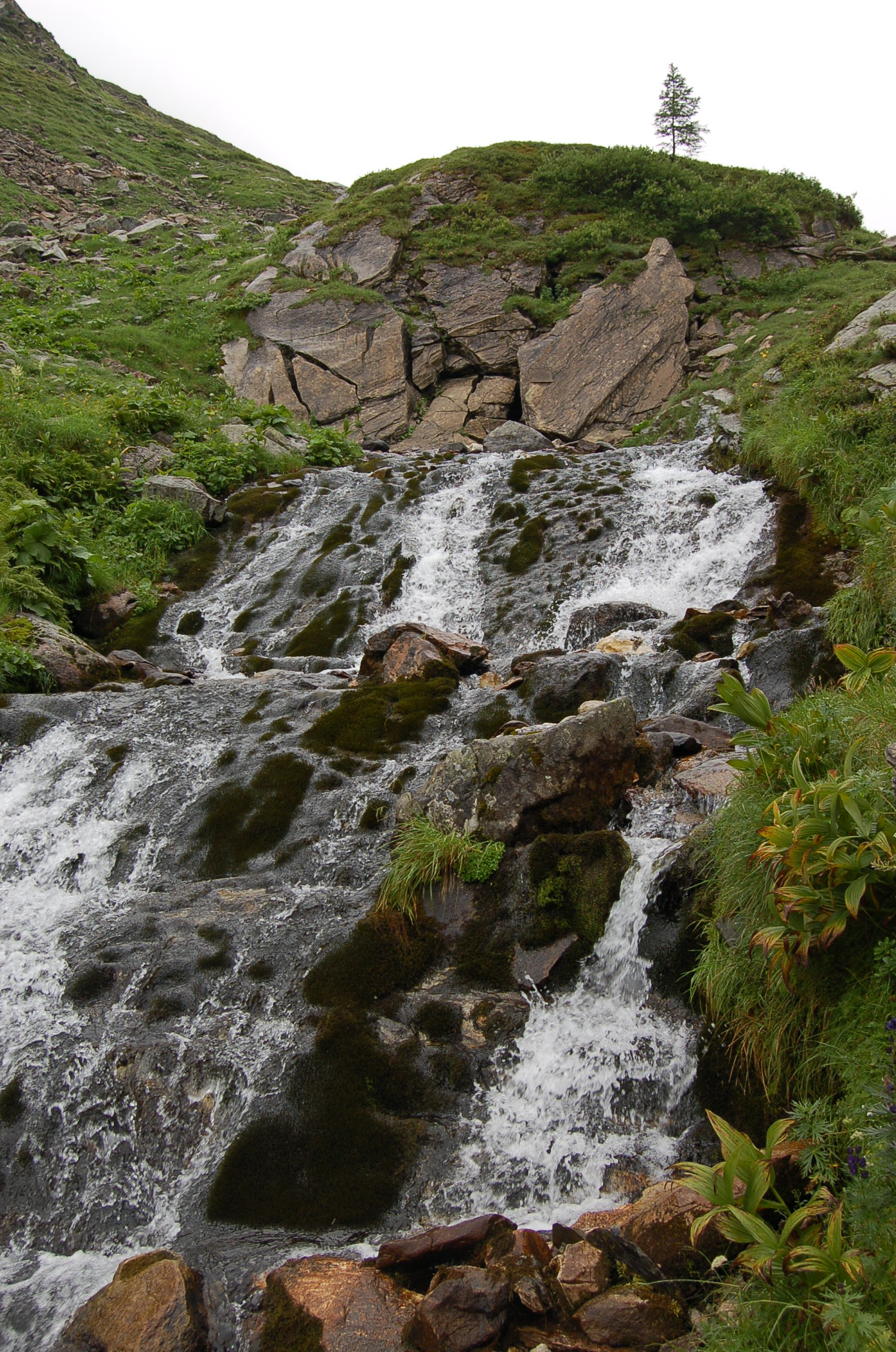 Murursprung (Mur's origin) - the Mur spring